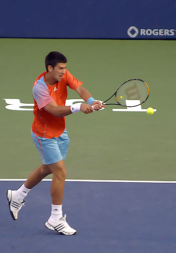 Novak Djokovic playing at the 2008 Rogers Cup